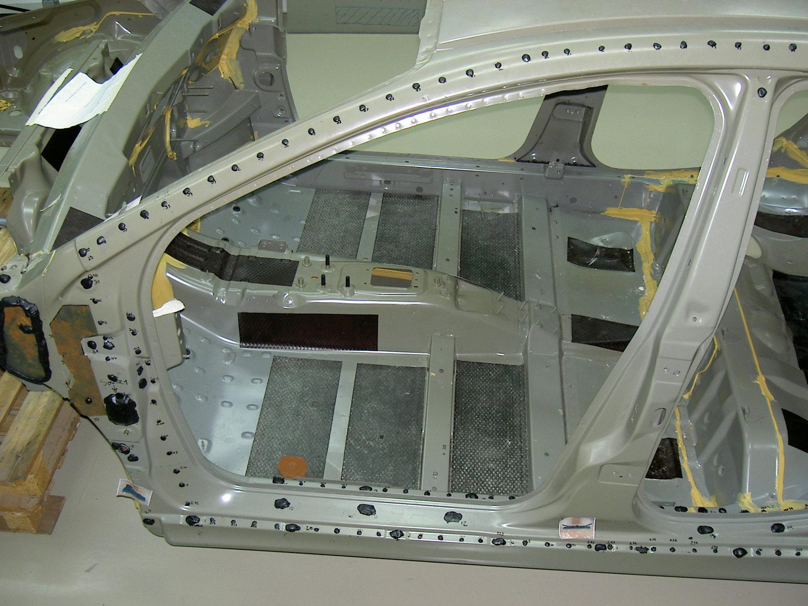 Prototype car body with acoustic function materials (grey and black panels). Cataphoresis was applied and cured; paint not applied; paint curing done.